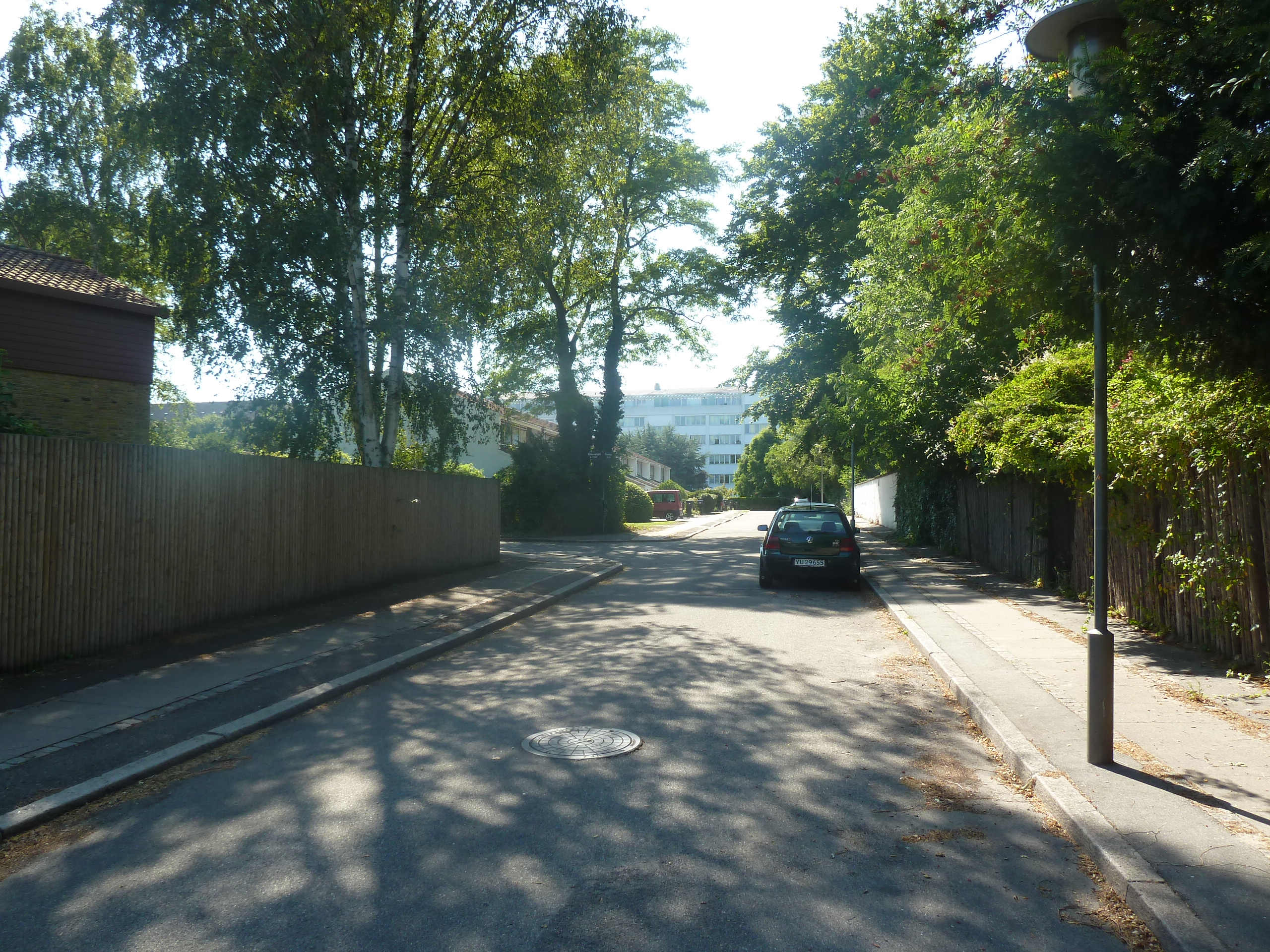 The street Kildevænget in Østerbro in Copenhagen. The Czechian Embassy at the right.